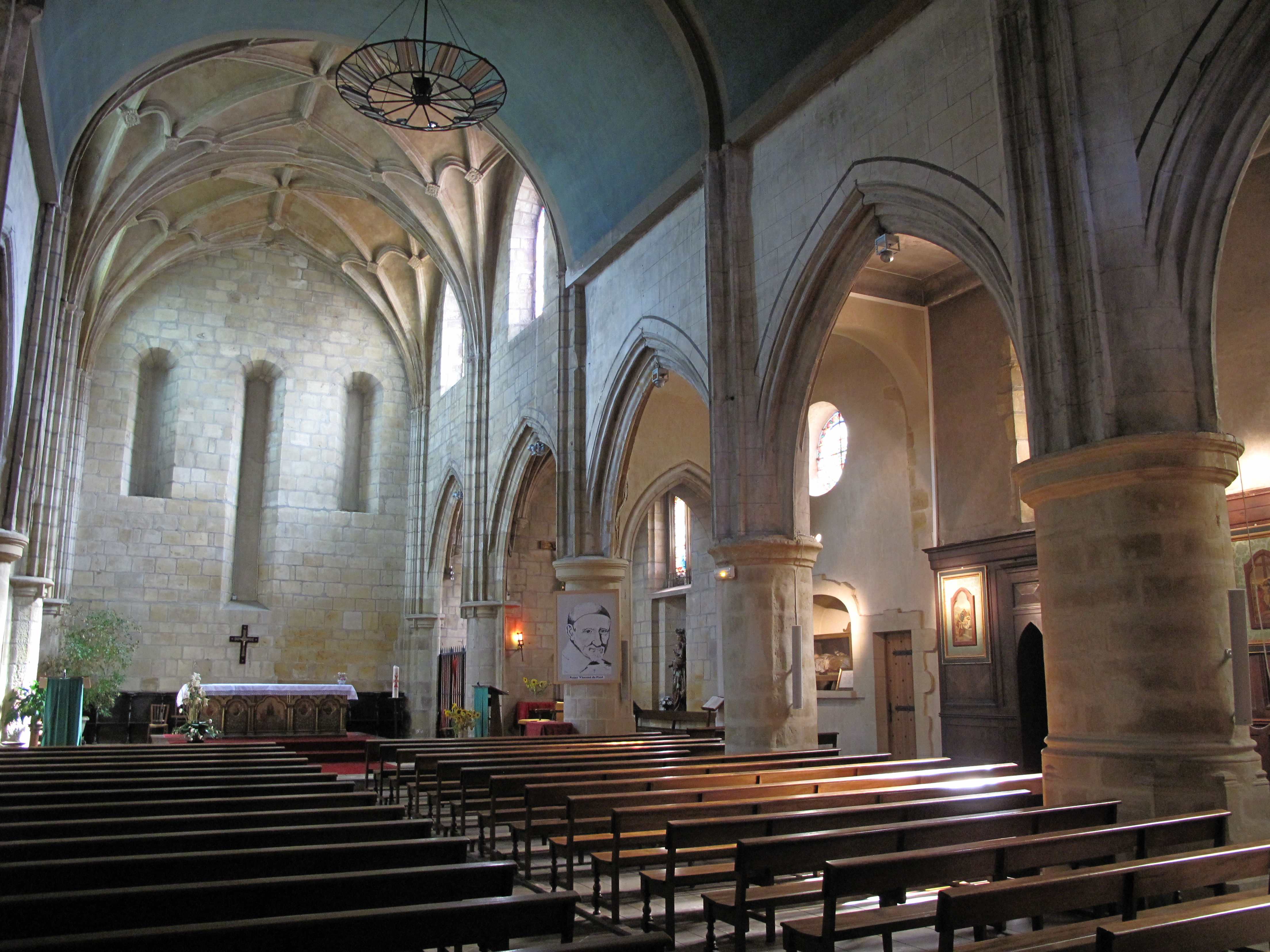 Interior of the church of Holy-Spirit in Bayonne, Pyrénées Atlantiques, France